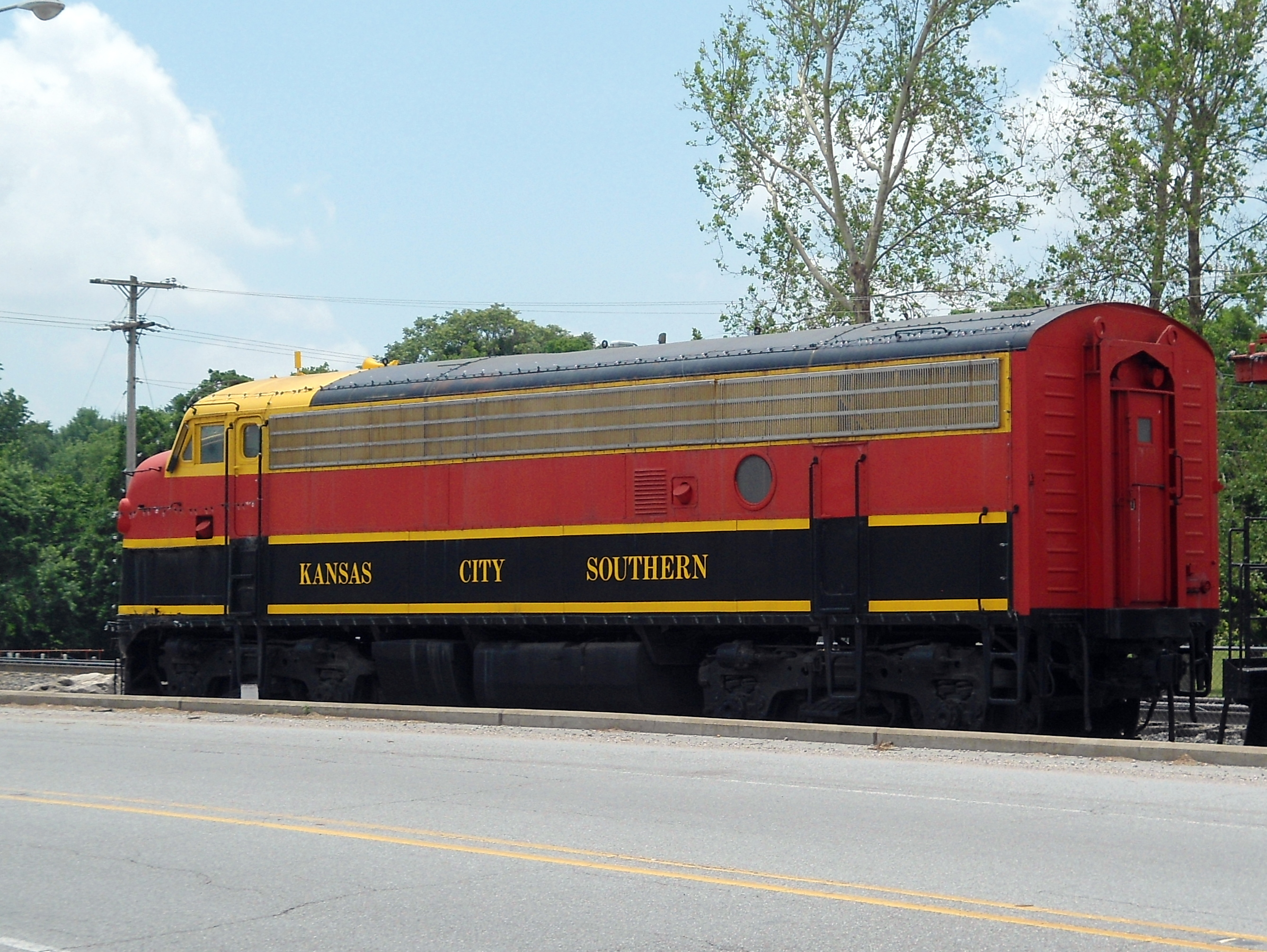 Kansas City Southern locomotive in Decatur, AR. On NRHP